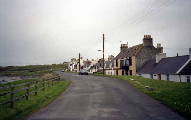 Port Logan